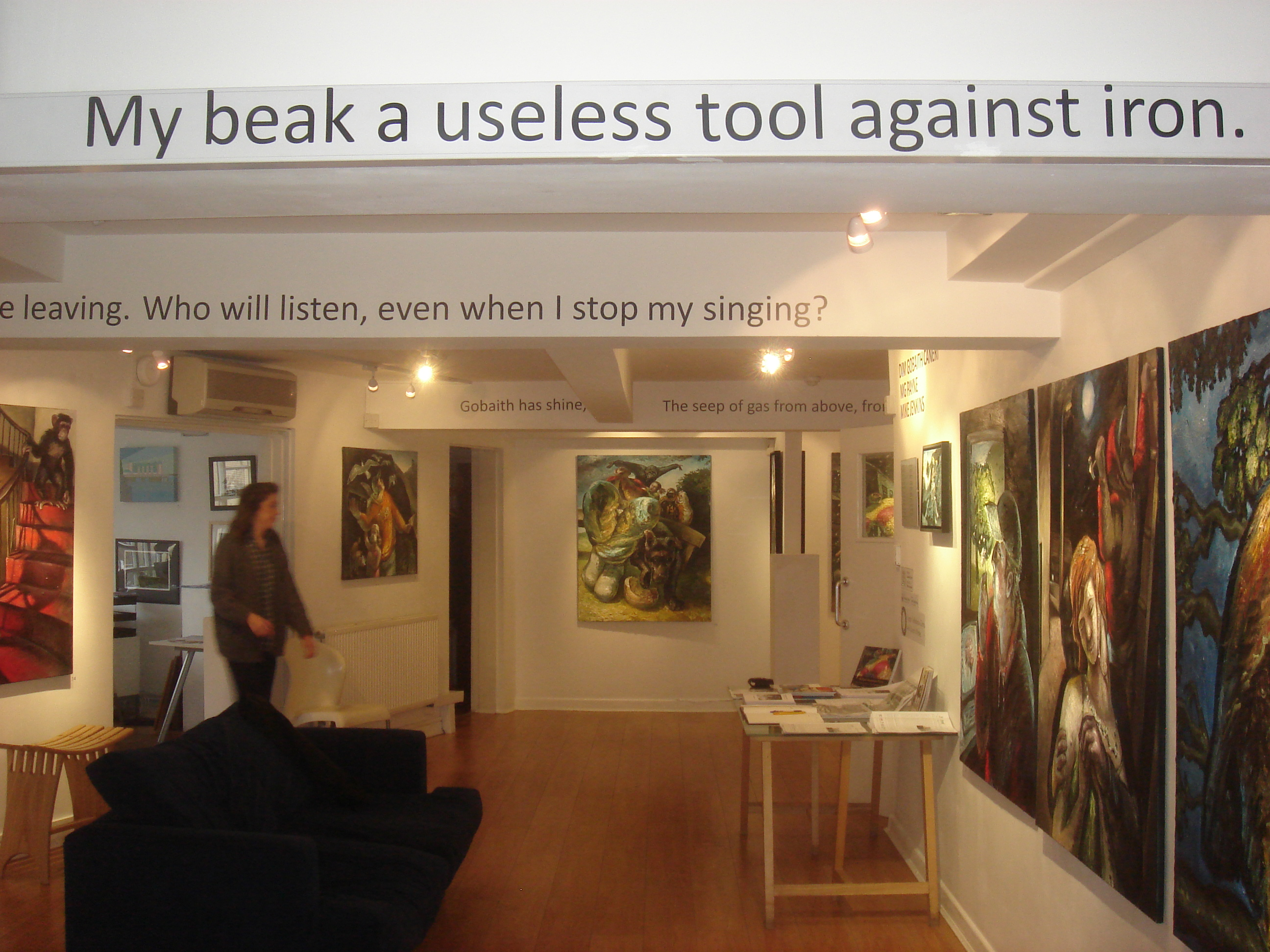 Exhibition Dim Gobaith Caneri by poet Mike Jenkins and painter MG Payne. The exhibition used Welsh language idioms as a starting point.